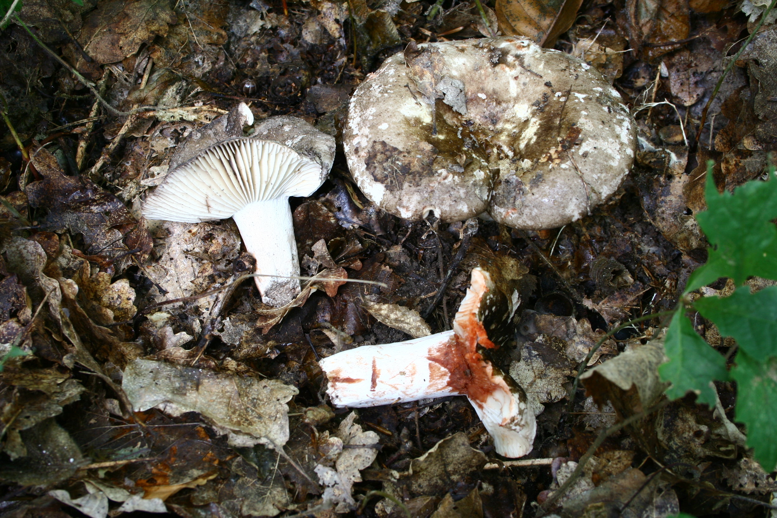 Russula nigricans in the Forêt de Sénart near Paris, France. One example (which has largely been eaten) shows a bright red hue before turning black.